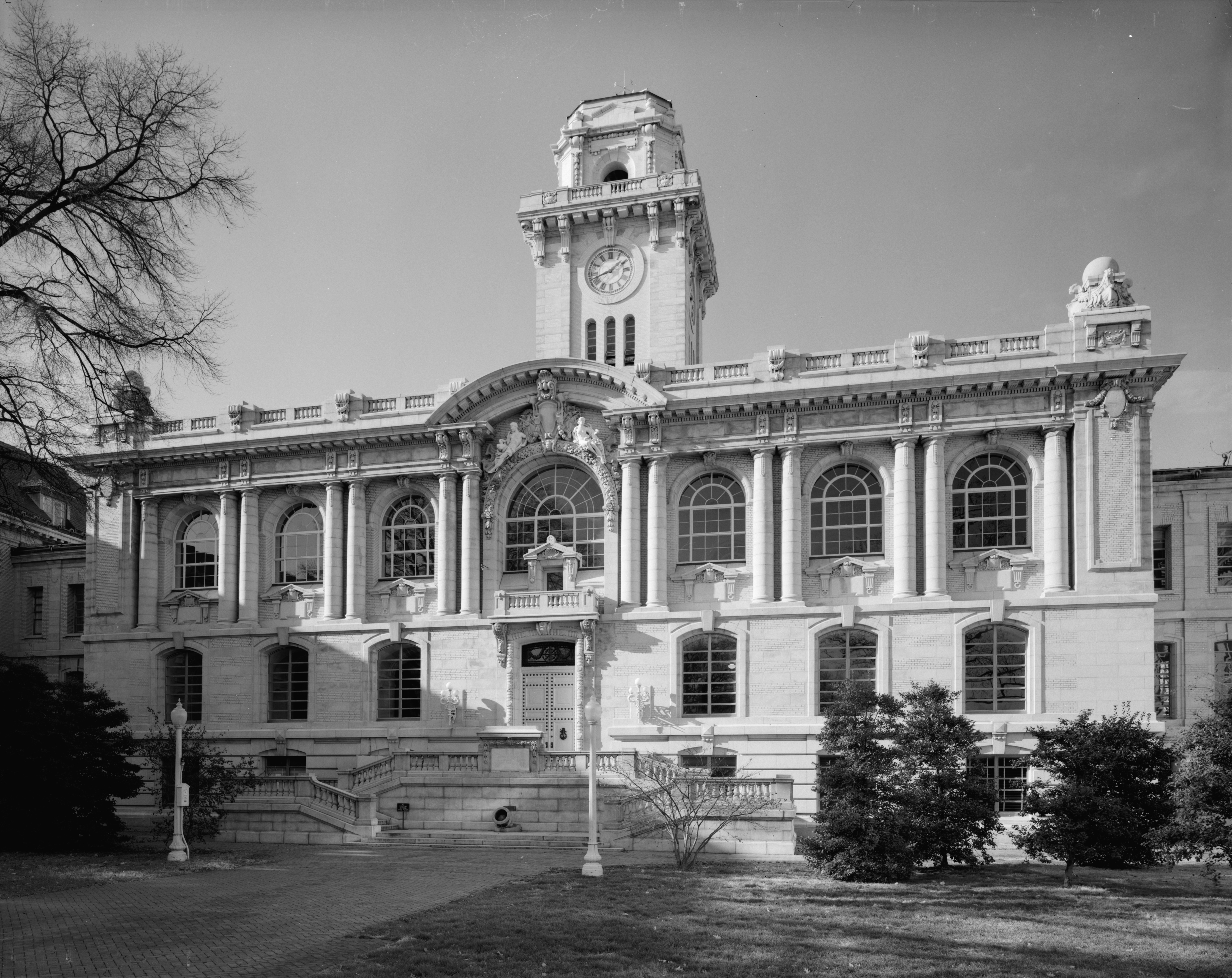 The southeastern face of the United States Naval Academy's Mahan Hall, named after Admiral Alfred Thayer Mahan.